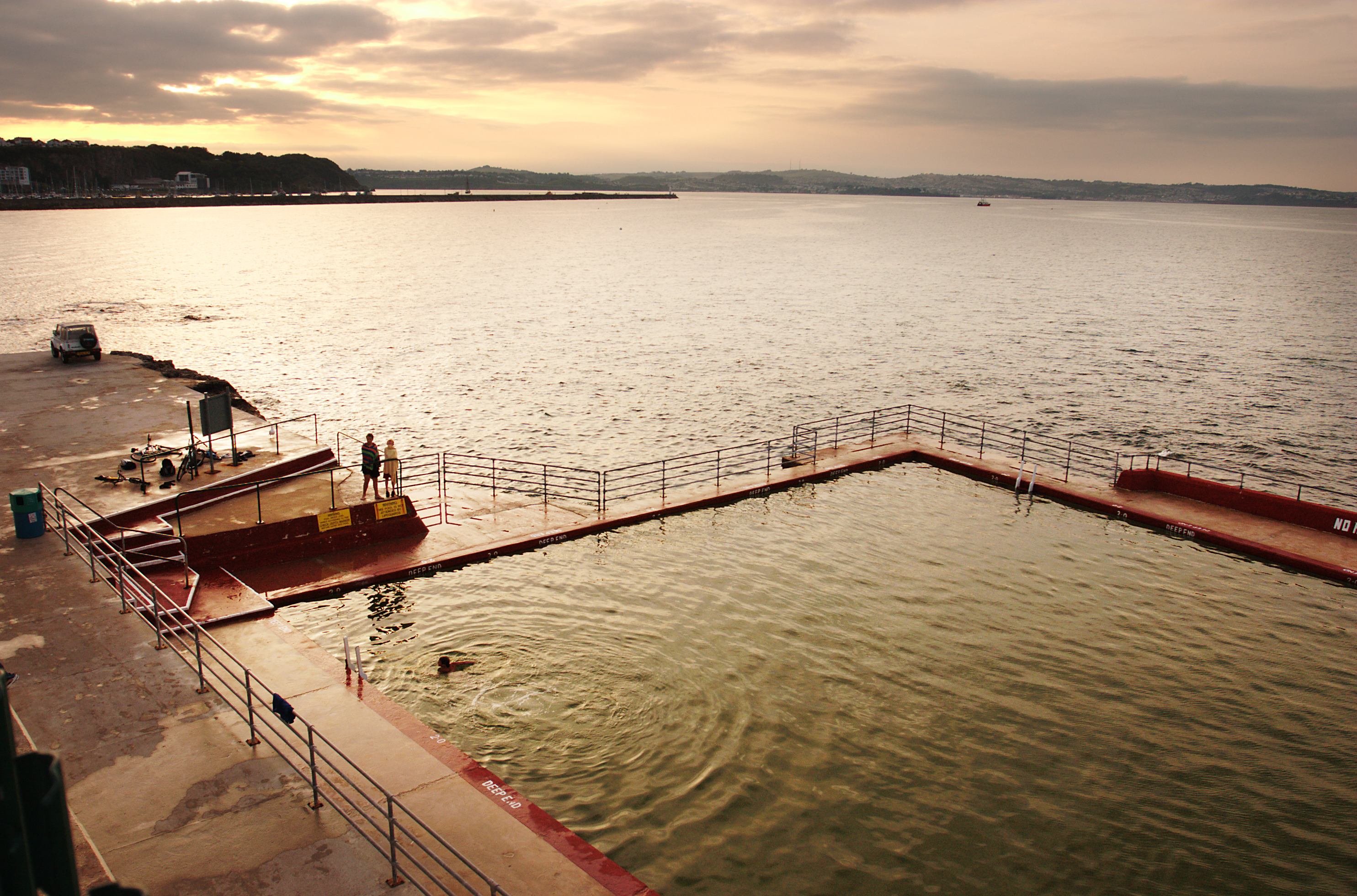 Shoalstone Pool Brixham, last day of opening.